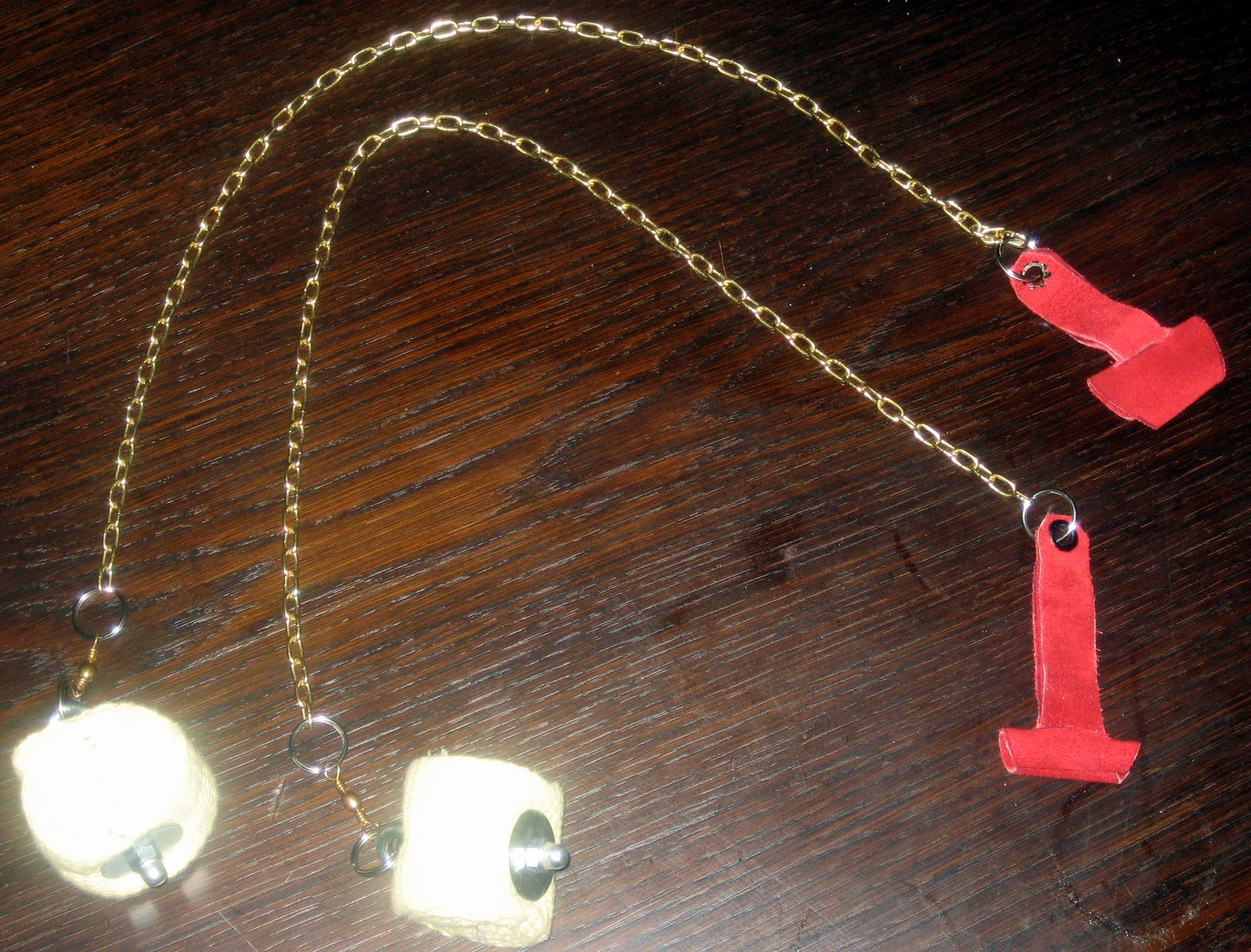 A picture of my firepois for the Poi article